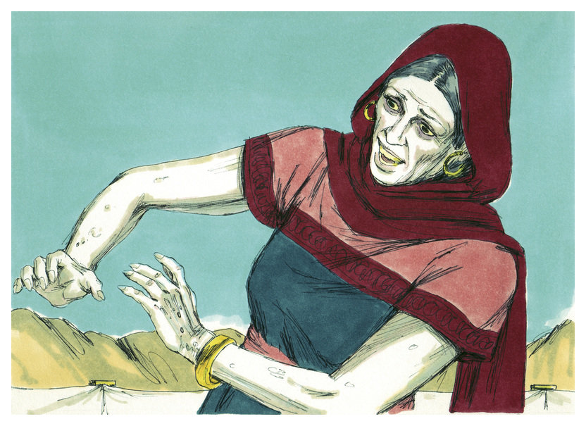 Biblical illustration of Book of Numbers Chapter 12